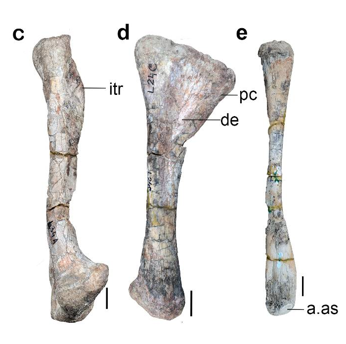 Postcranial bones of Shringasaurus indicus. c, Right femur (ISIR 1016) in medial view. d, Left tibia (ISIR 1033) in lateral view e, Left fibula (ISIR 1037) in medial view. Scales = 2 cm. a.as, articular facet for the astragalus; de, depression; itr, internal trochanter; pc, posterior hemicondyle.